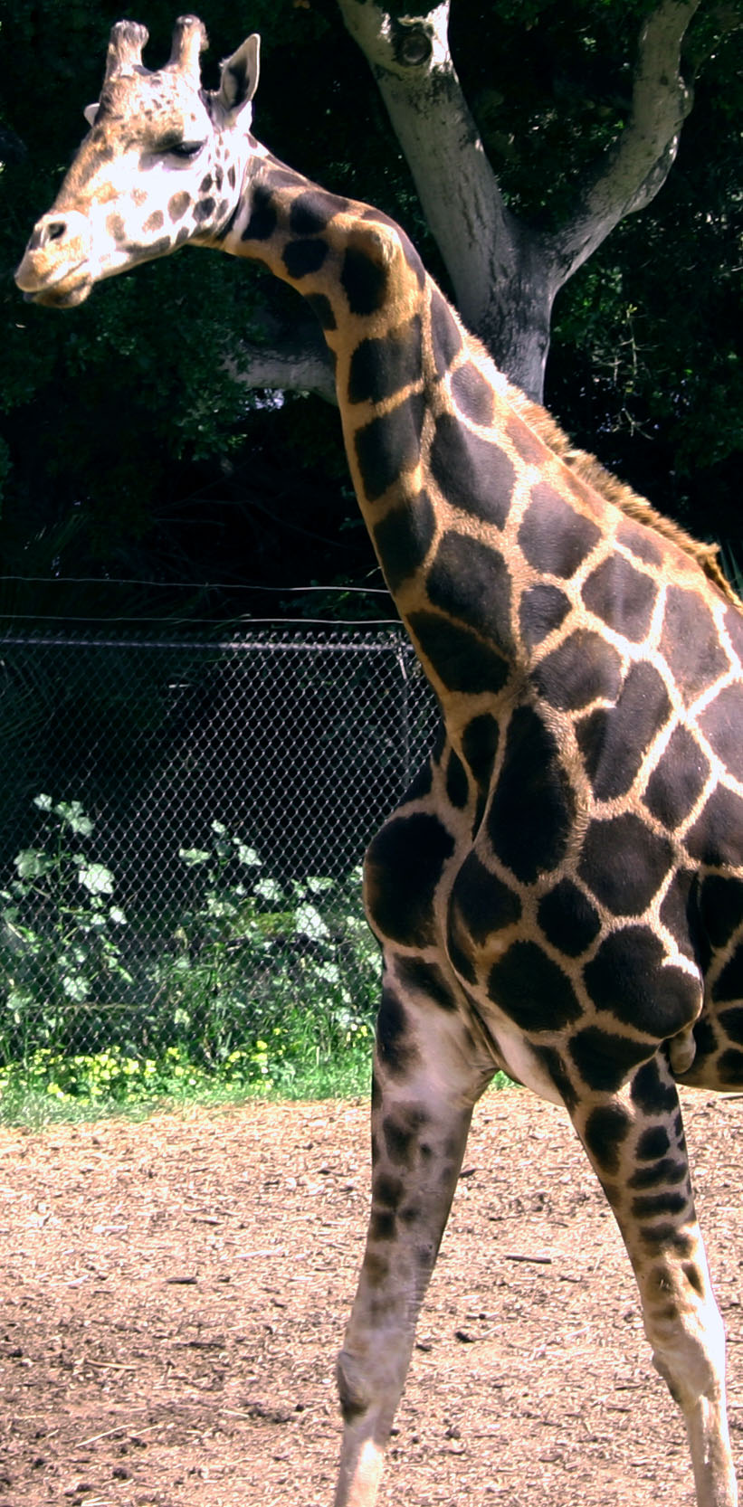 Gemina, the crooked-necked giraffe at the Santa Barbara Zoo.